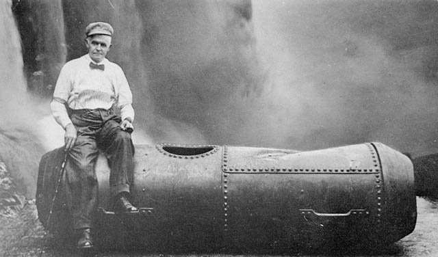 Bobby Leach and his barrel after his perilous trip over Niagara Falls, July 25, 1911.